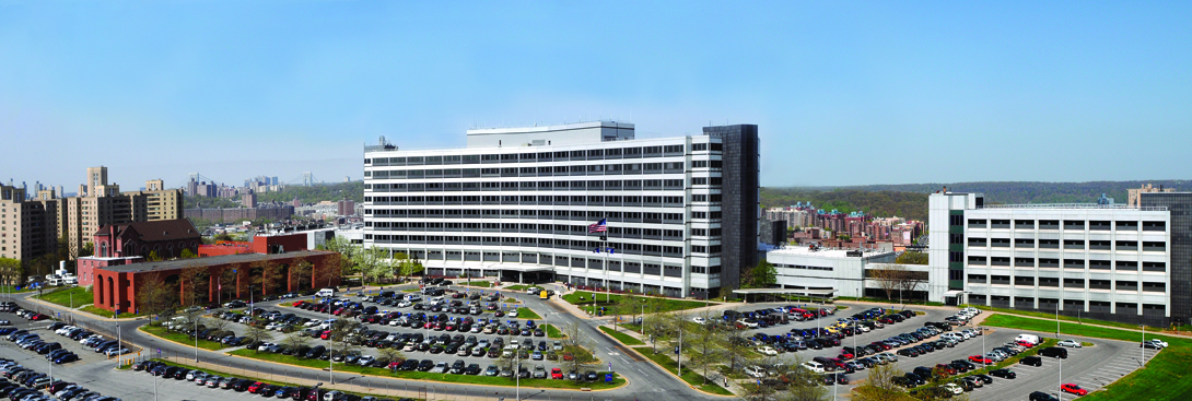 Pictured is the James J. Peters VA Medical Center, Bronx, N.Y. (Photo by James J. Peters VA Medical Center) Photo by Hector Mosley U.S. Army Corps of Engineers, New York District